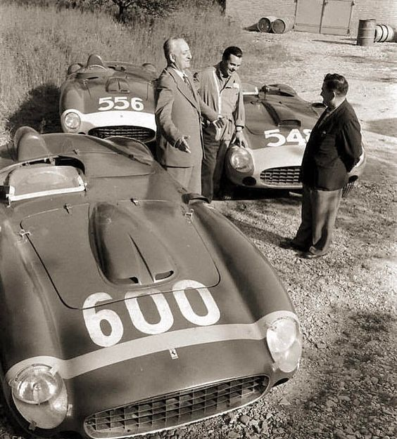 Entry #600 (in front) at at Mille Miglia on 28–29 April 1956 was the 1956 Ferrari 290 MM s/n 0626 driven by Jean Fangio (4th place).[1] Entry #556 (rear left) was the 1956 Ferrari 860 Monza s/n 0602M driven by Luigi Musso [2] and entry #548 (rear right) and WINNER OVERALL was the 1956 Ferrari 290 MM s/n 0616 driven by Eugenio Castellotti [3]. Standing is Enzo Ferrari, not sure who the two other men are (they do not look like the drivers Musso, Castellotti or Fangio). For results: [4]